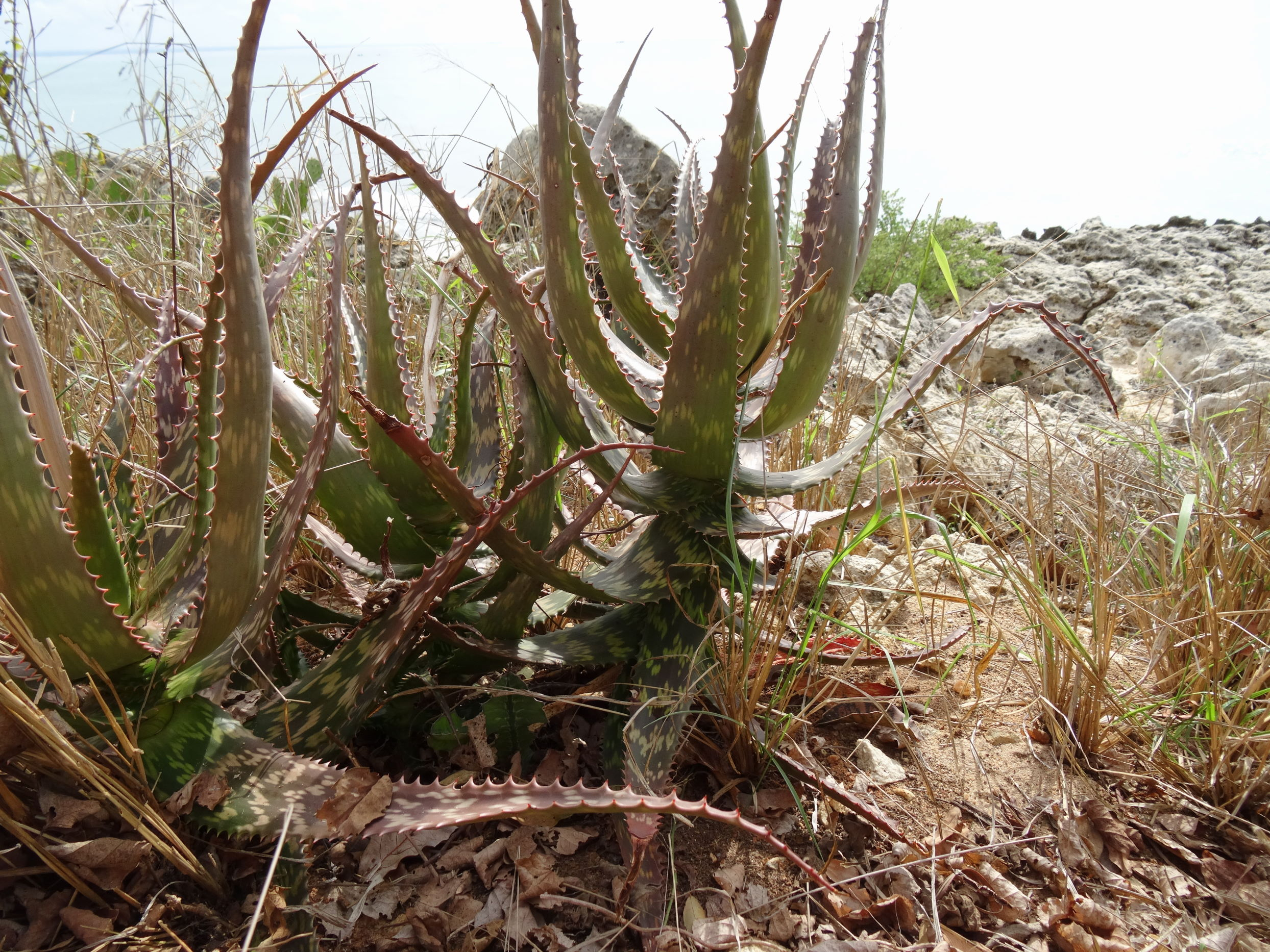 Aloe mossurilensis - on coral rocks